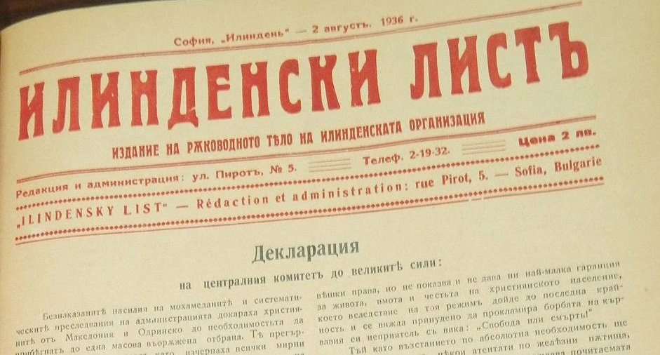 Ilindenski List 1936